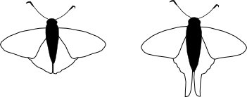 typical aspect of Eudaminae